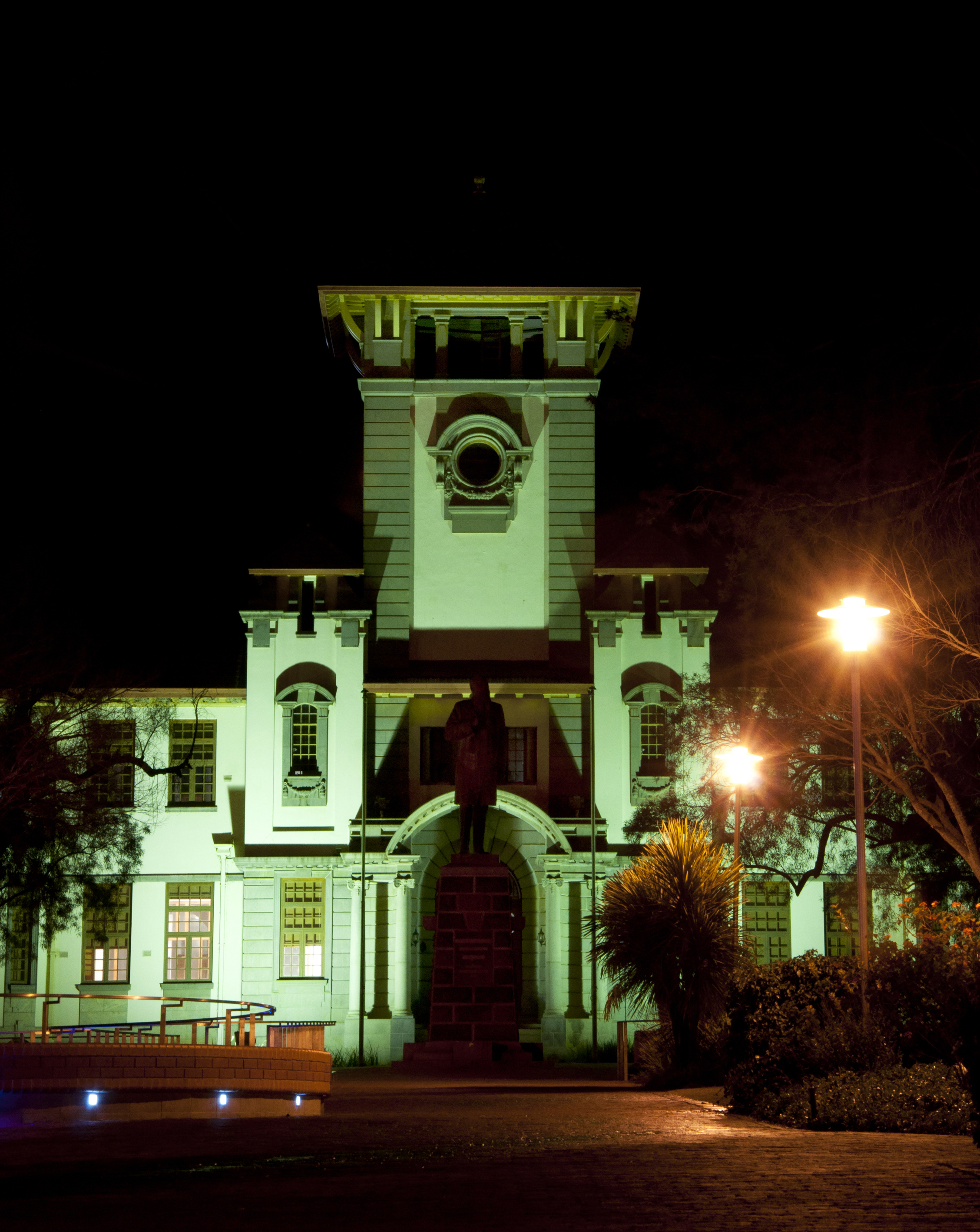 This media shows a South African Protected Site with SAHRA file reference 9/2/302/0001-005.